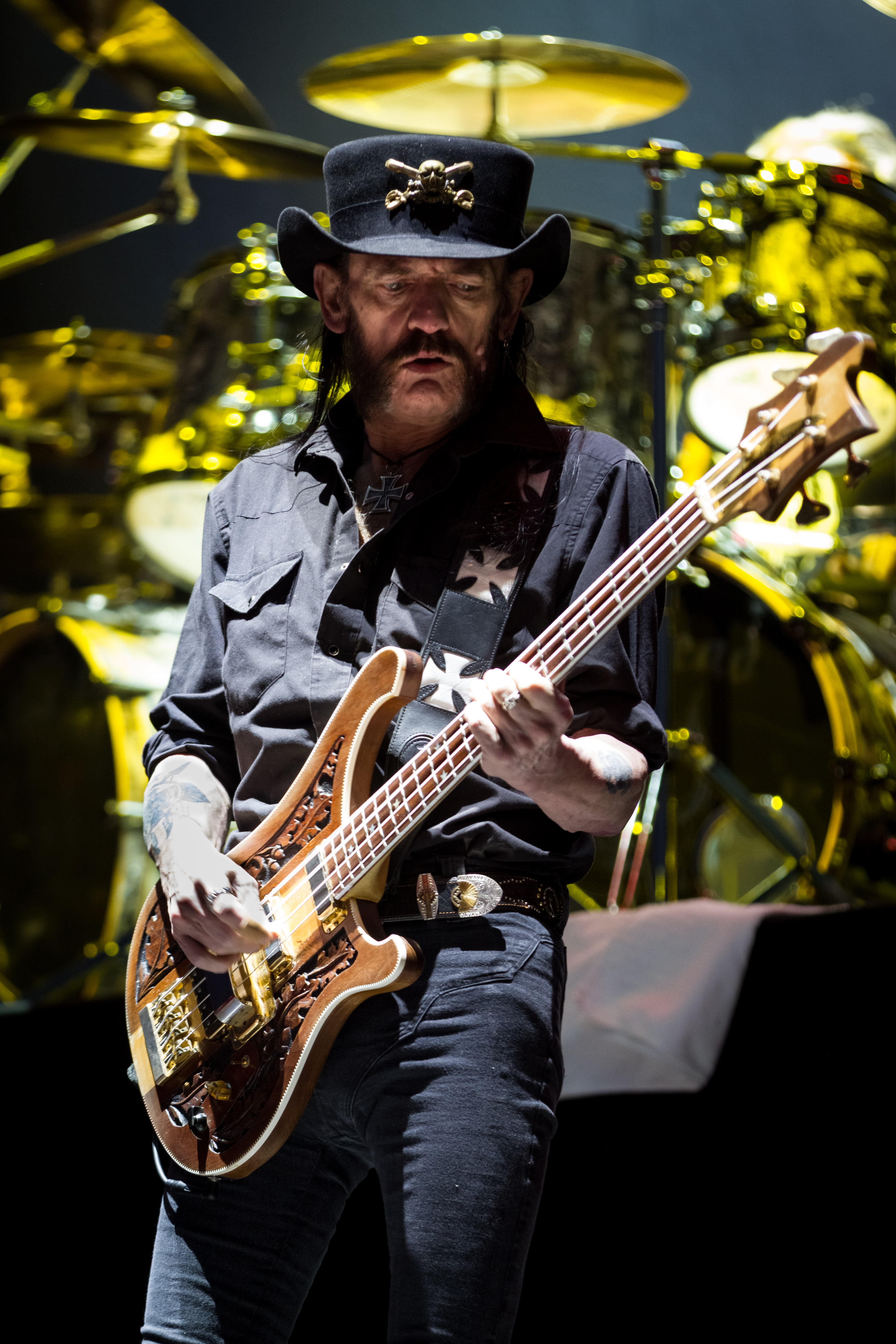 Motörhead - Rock am Ring 2015